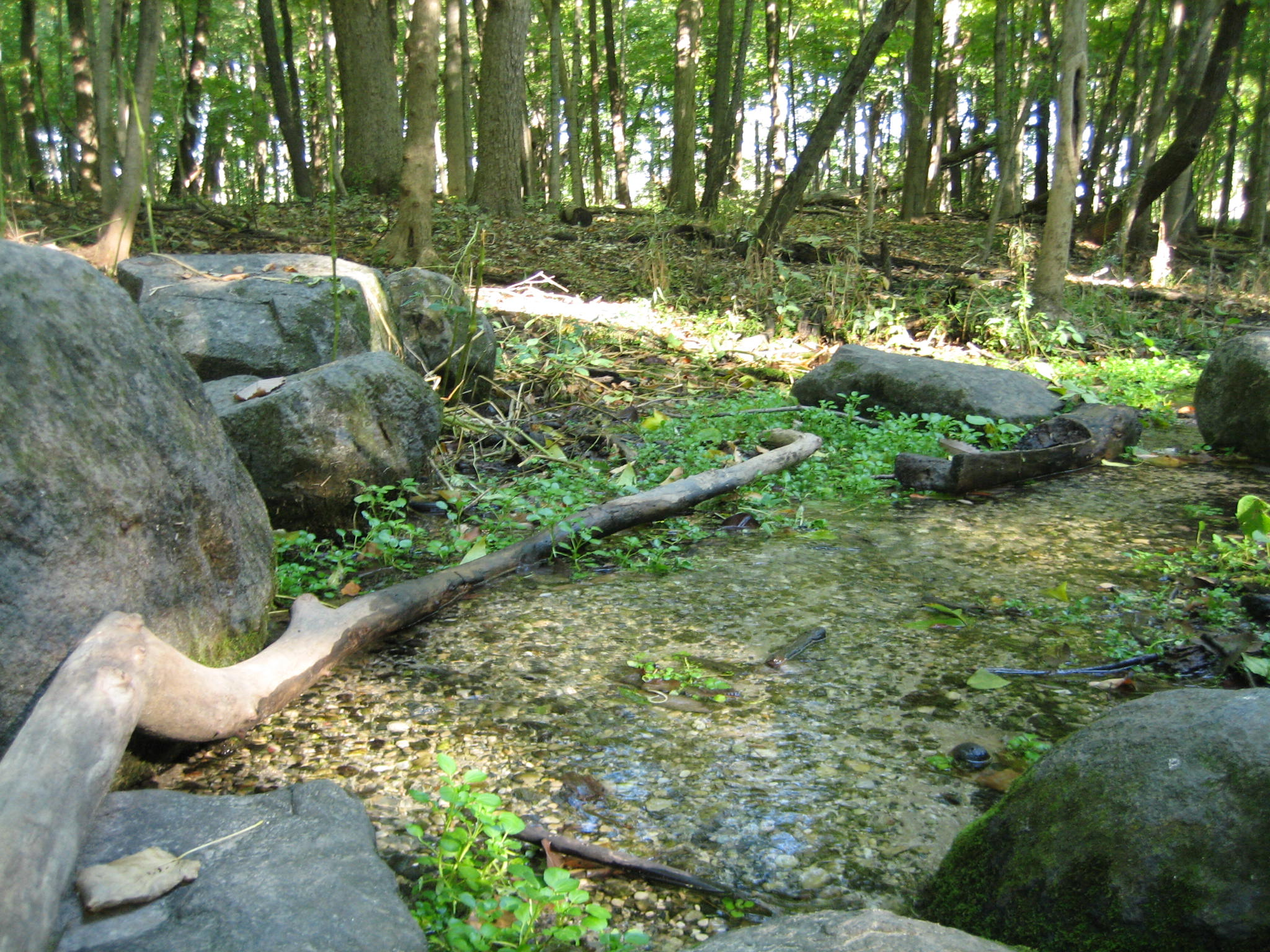 Silver Springs State Fish and Wildlife Area, Kendall County, Illinois, USA. Near the city of Yorkville. Silver Springs.